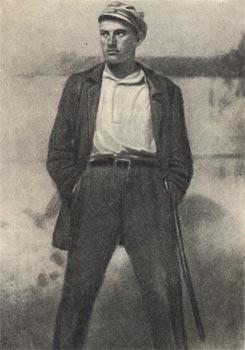 Vladimir Mayakovsky in the film "Baryshnya i khuligan", 1918